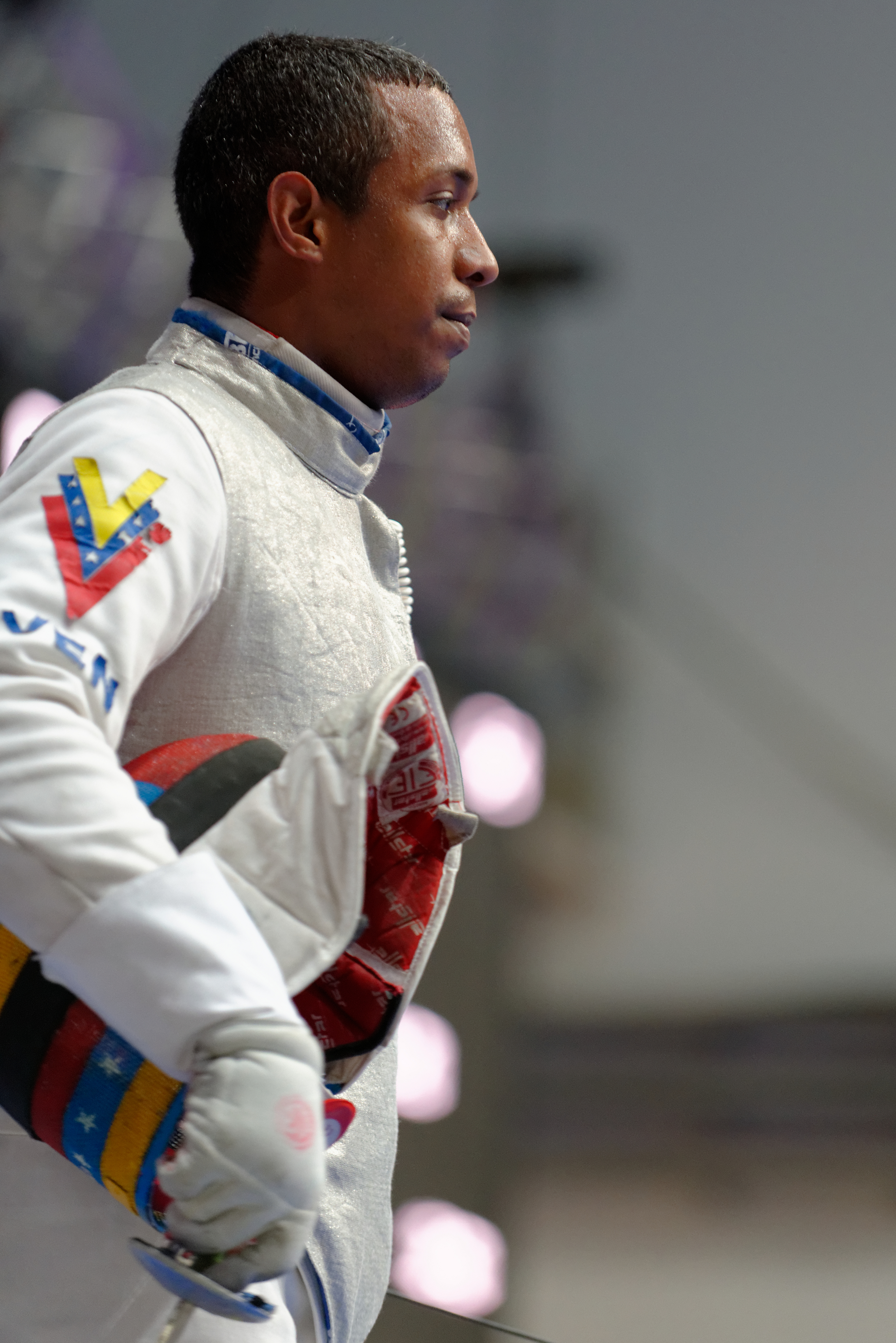 Venezuela's Antonio Leal at the men's foil event of the 2013 World Fencing Championships 2013 at Syma Hall in Budapest on 9 August 2013.